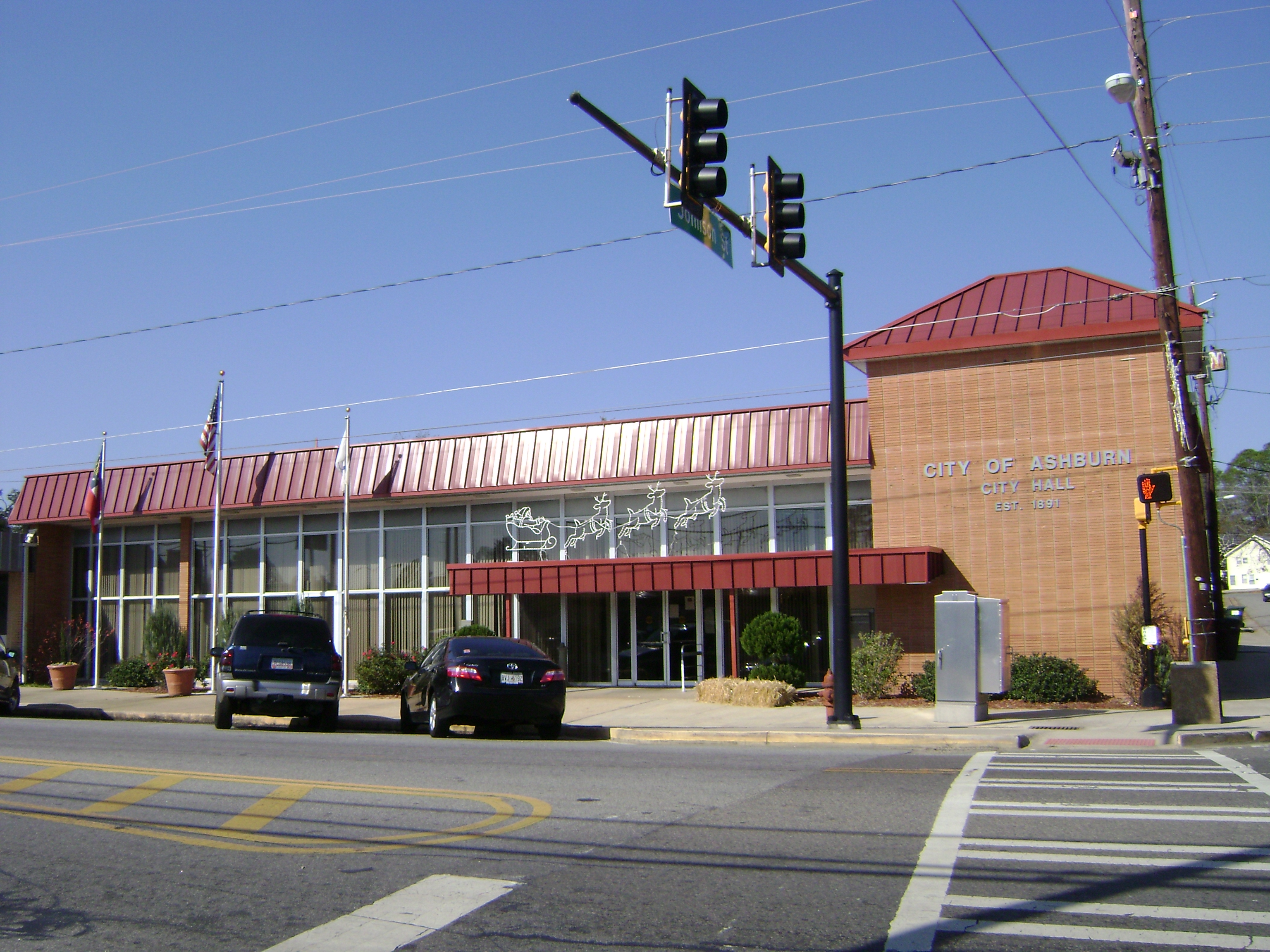 Ashburn City Hall SE corner